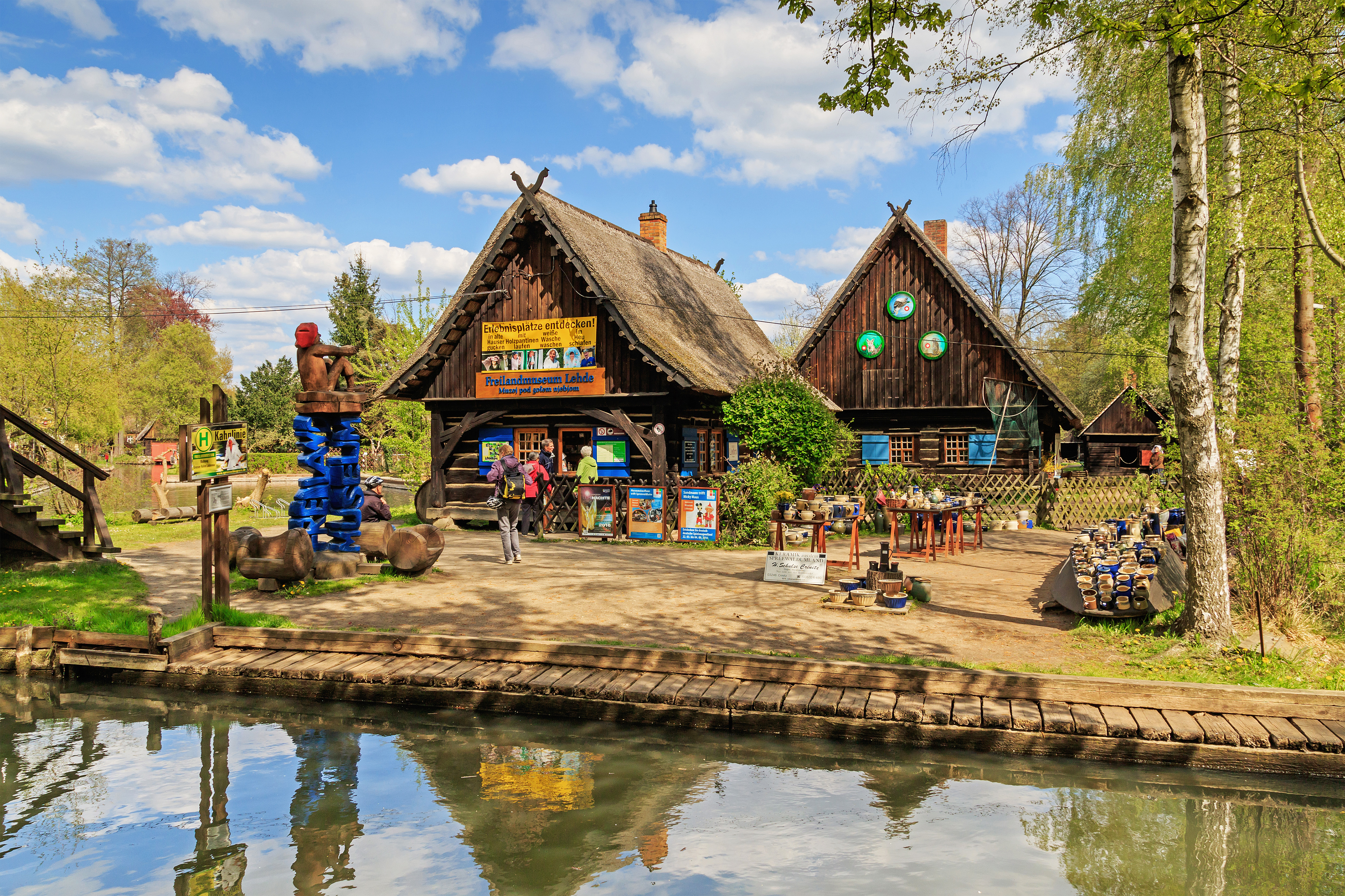 Lehde village in Lübbenau/Spreewald, Brandenburg, Germany